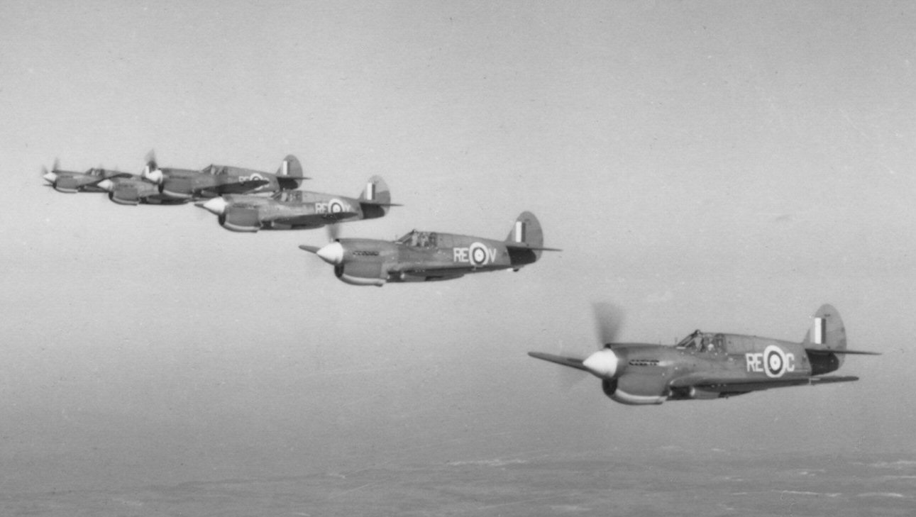 Kittyhawks of 118 SQN RCAF in April 1942